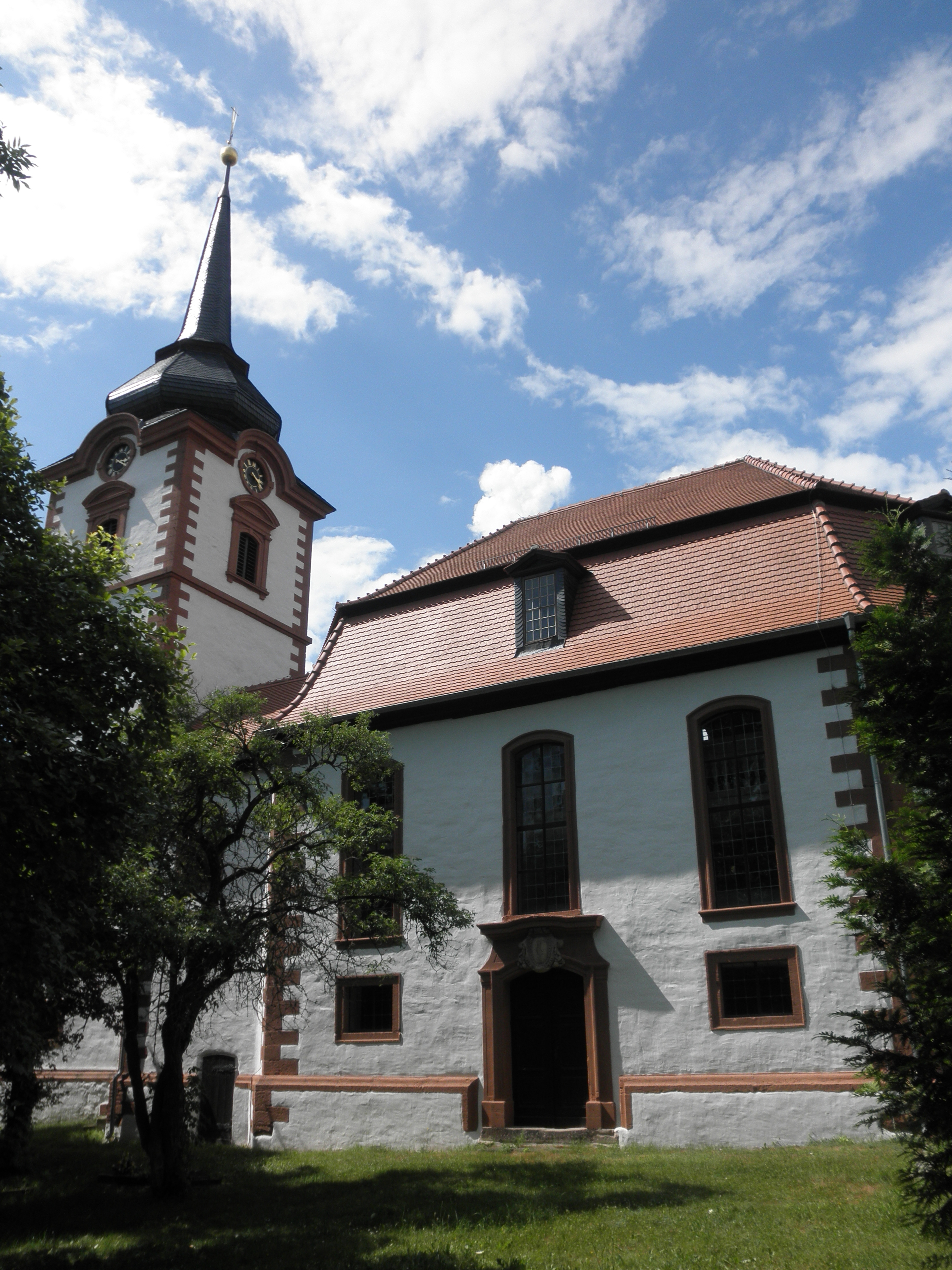 Church in Eckstedt (Thuringia)